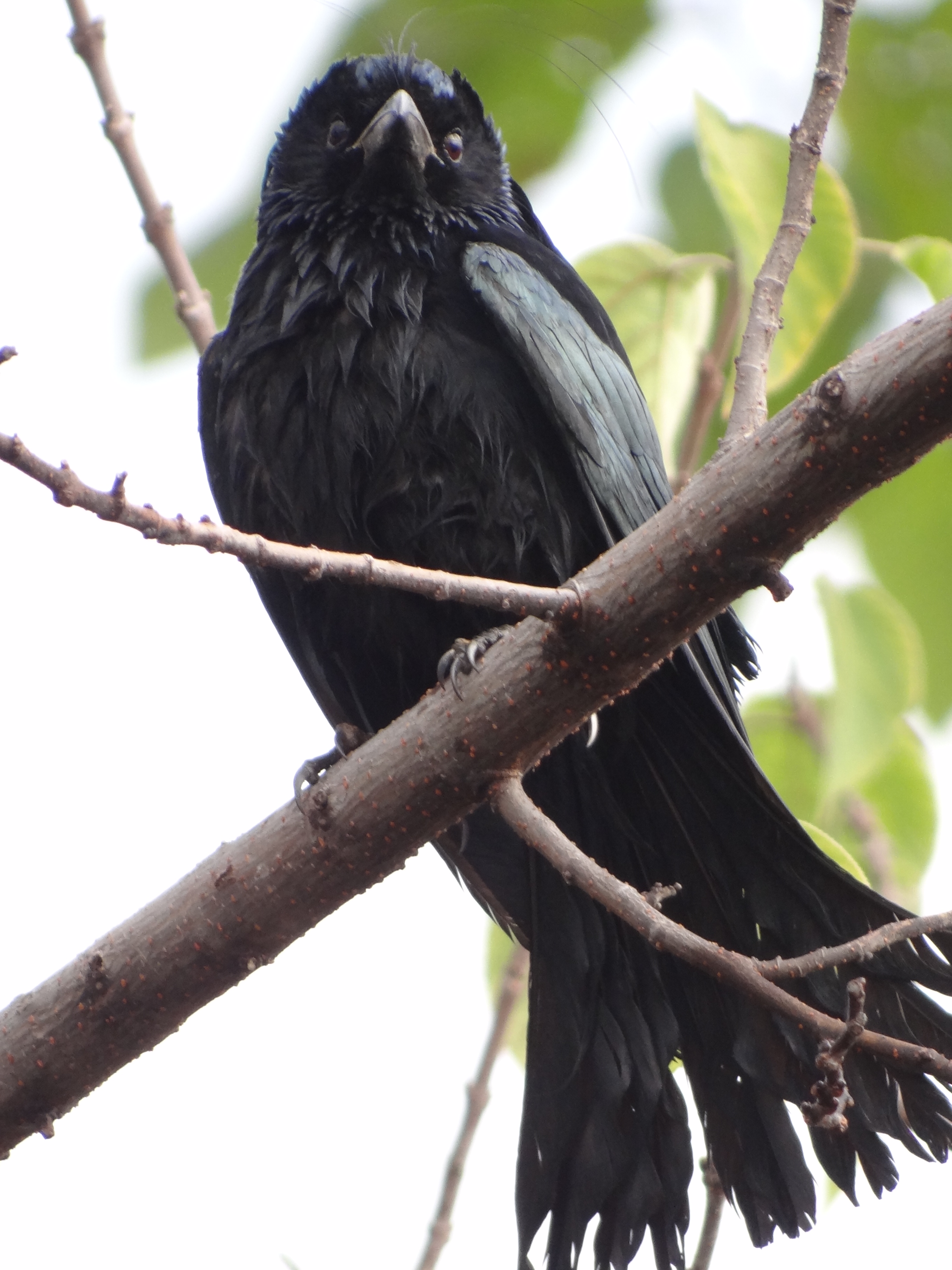 Hair-crested Drongo (Spangled Drongo) - Dicrurus hottentottus